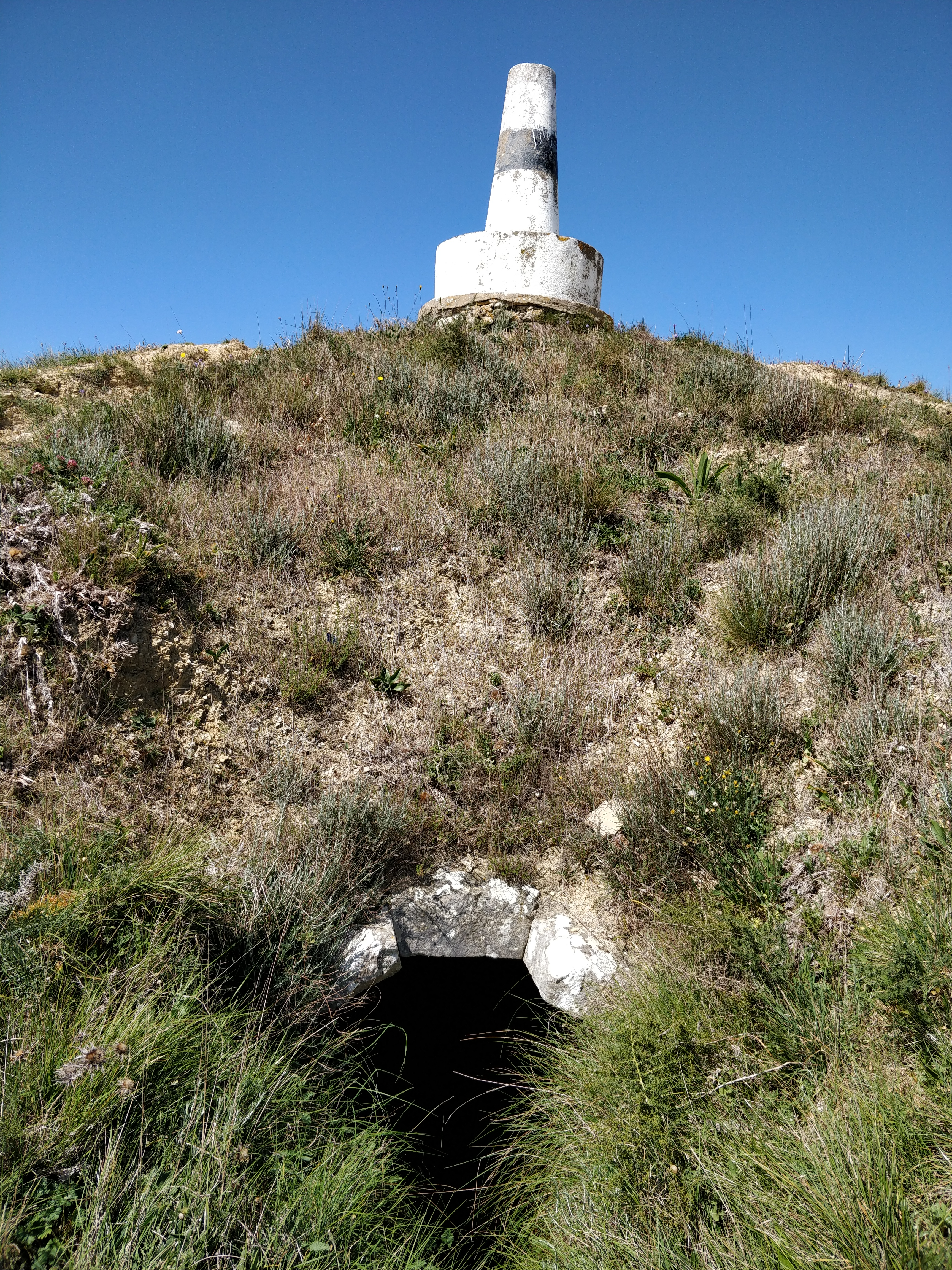 Lisbon District, Portugal showing the entrance to the stone-lined armory or magazine. The fort is now topped by a survey marker.